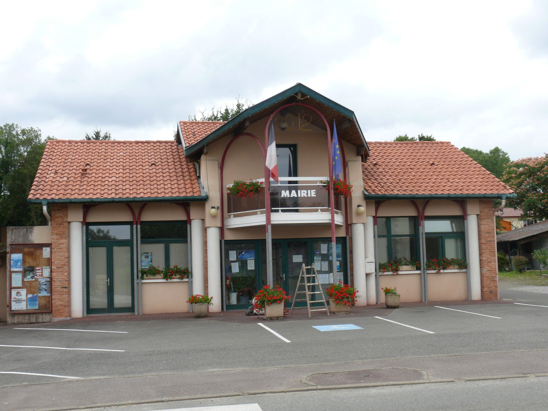 The townhall of Cagnotte (Landes, Pyrénées-Atlantiques, France).